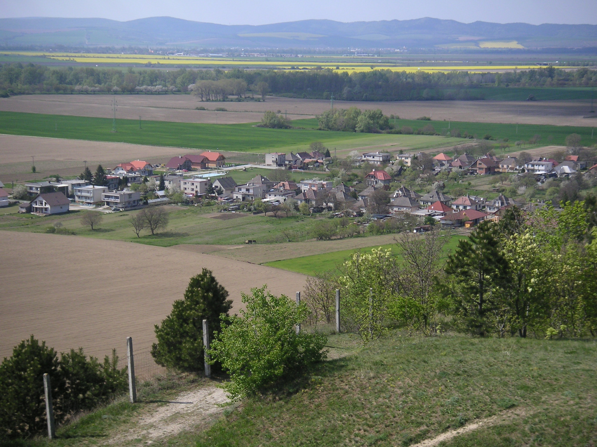 Village of Ducové in Slovakia from the Kostolec hill